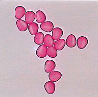 Erica arborea pollen from a melisopalinological analysis.